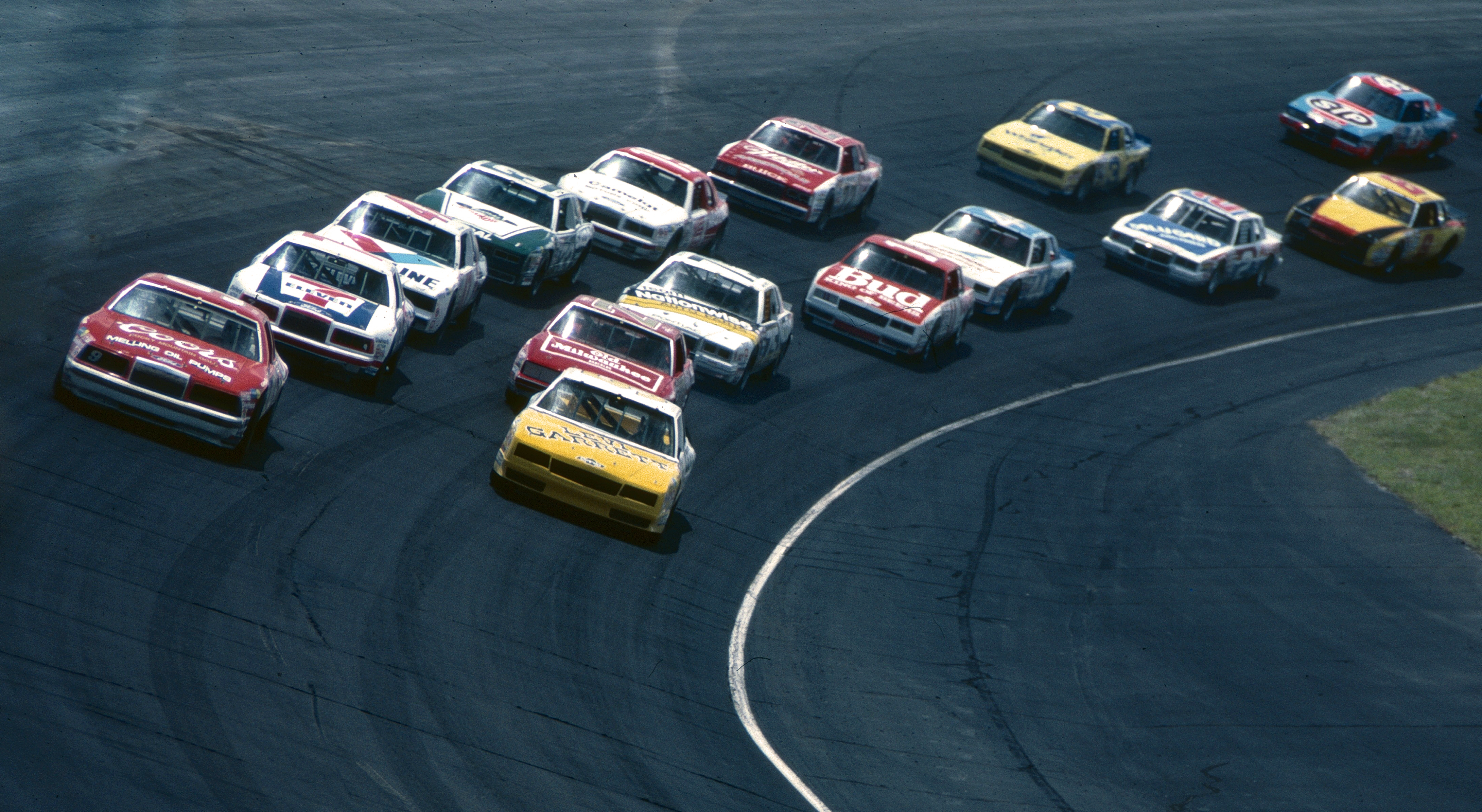 Dover International Speedway in 1985 with its asphalt surface. Photo By Ted Van Pelt